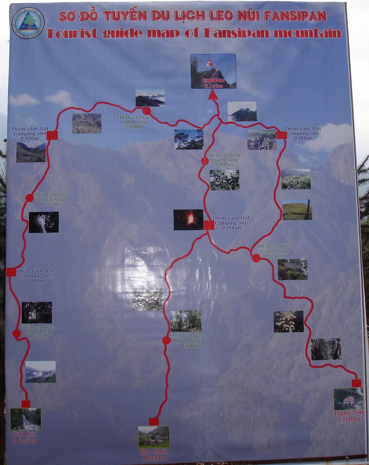 Tourist map of Fansipan Mountain and trekking roads.